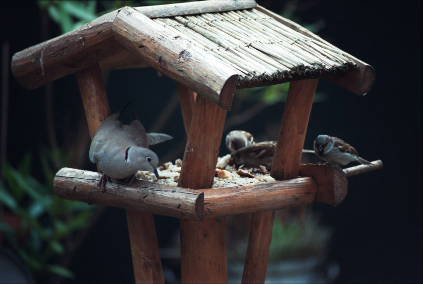 Bird table with Collared Dove and House Sparrows, in Blokker, The Netherlands